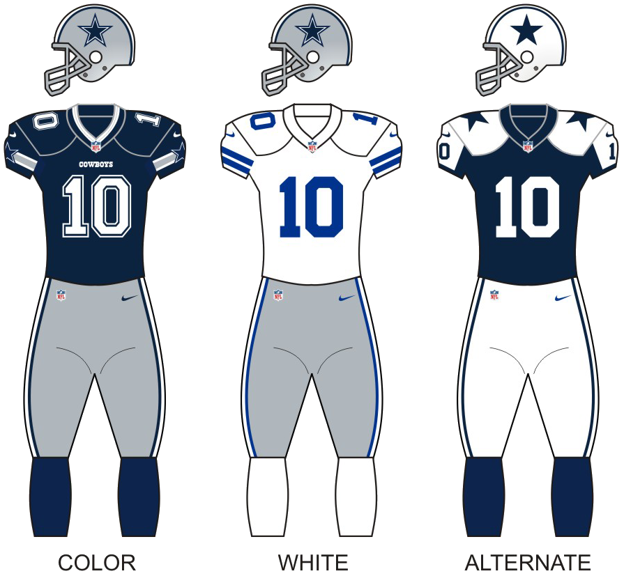 The uniforms of the Dallas Cowboys.